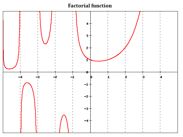 Plot of the (generalized) factorial function, using gnuplot